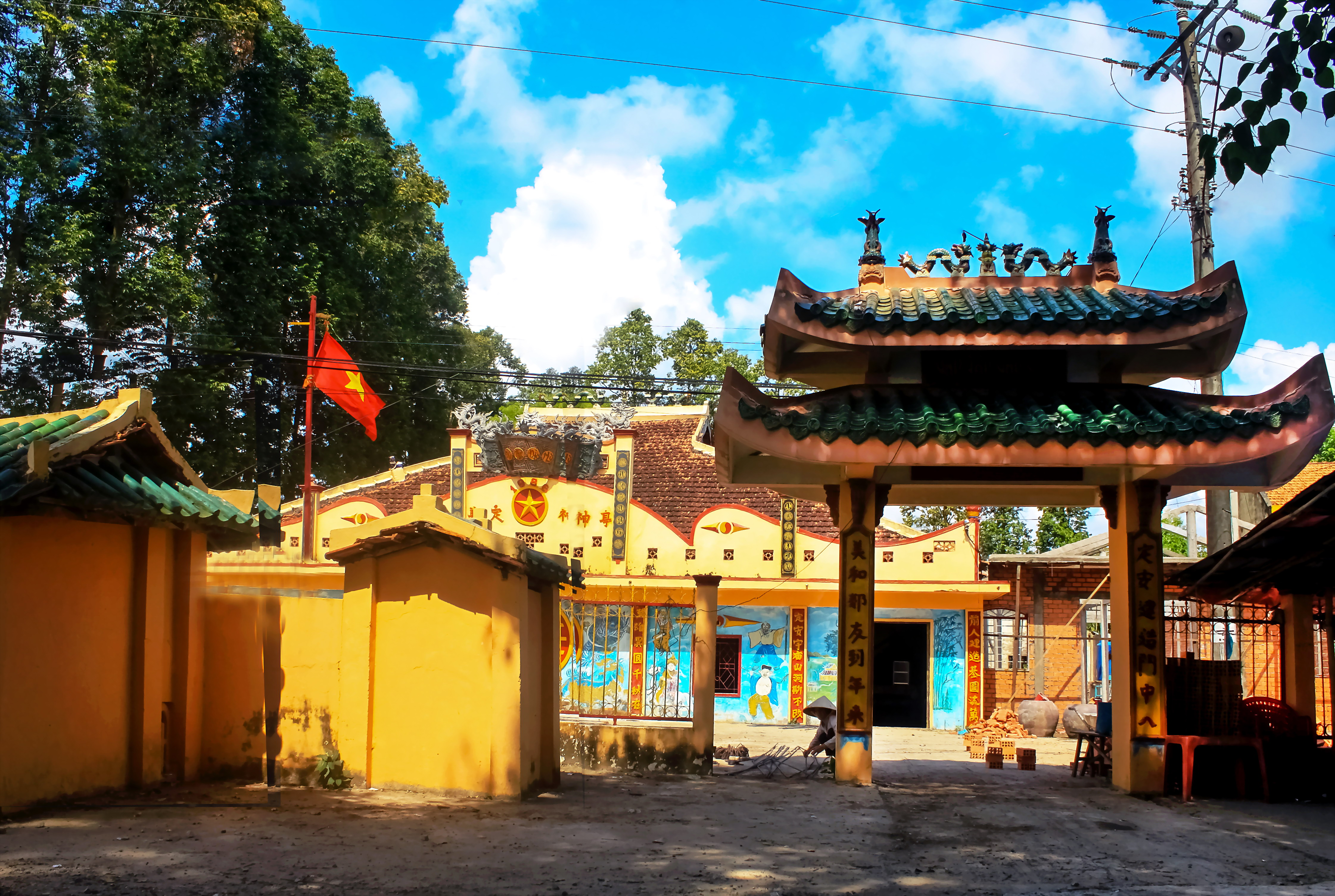 Toàn cảnh đình Định Mỹ tọa lạc tại vàm rạch Thốt Nốt, thuộc ấp Mỹ Thành, xã Định Mỹ, huyện Thoại Sơn, tỉnh An Giang, Việt Nam.